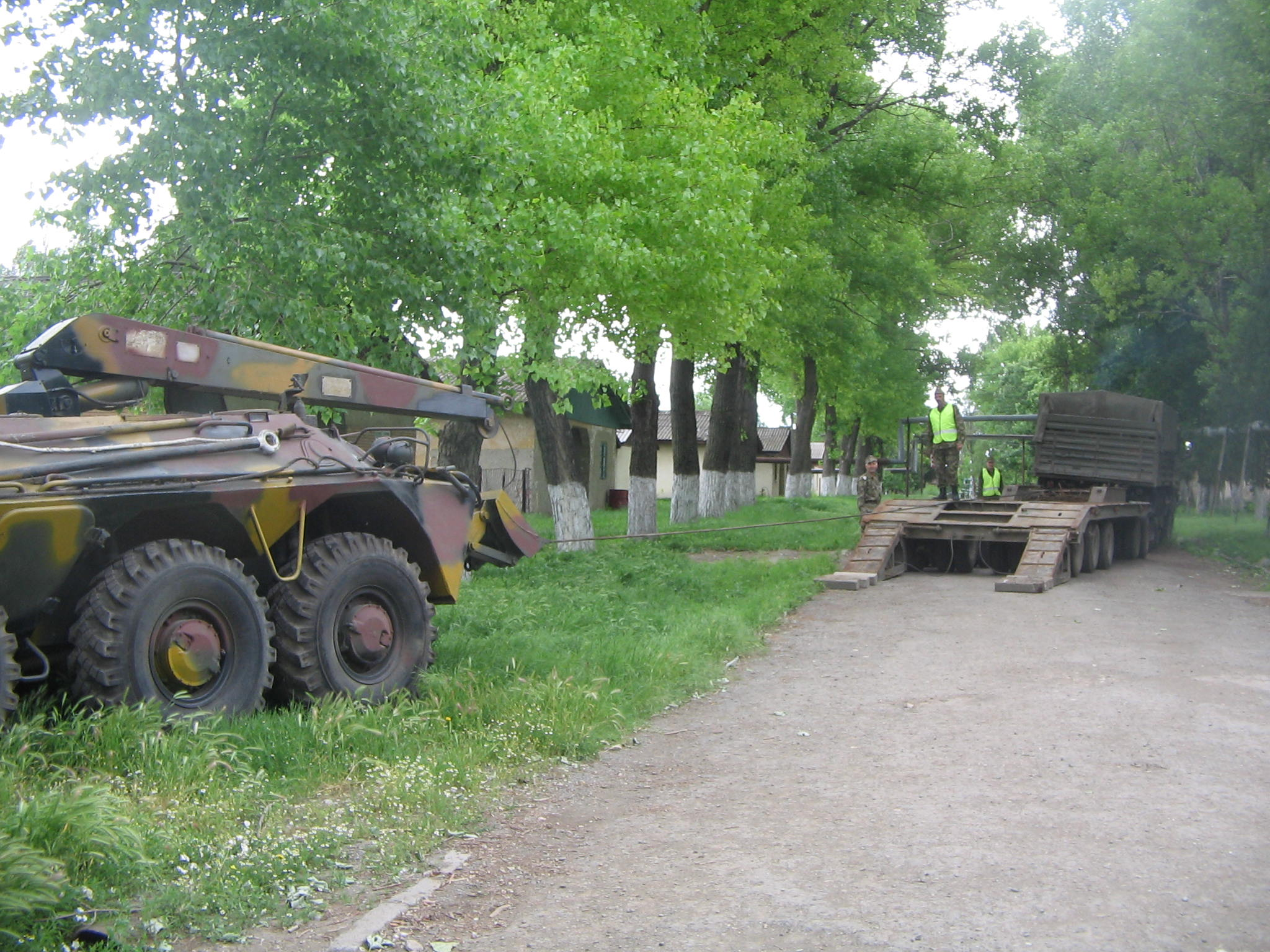 A TAB TERA-77L (based on TAB-77 chassis).